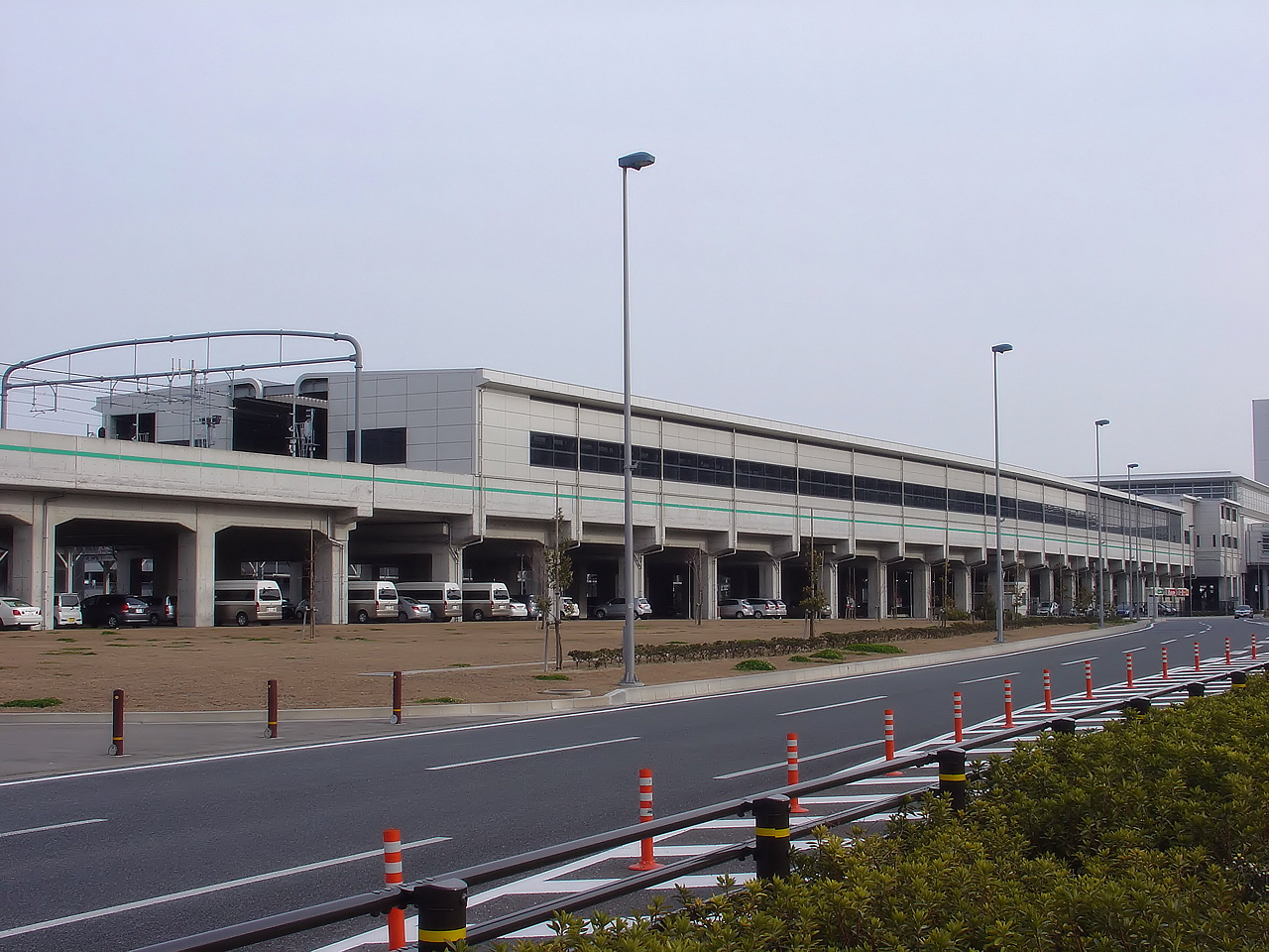 Nagoya Railroad, Central Japan International Airport Station.(Tokoname City, Aichi Prefecture, Japan)